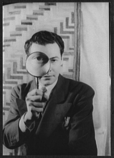 Carl Van Vechten (1880-1964)/LOC van.5a52382. Saul Mauriber, after a photograph of Salvador Dali by Halsman, 1944